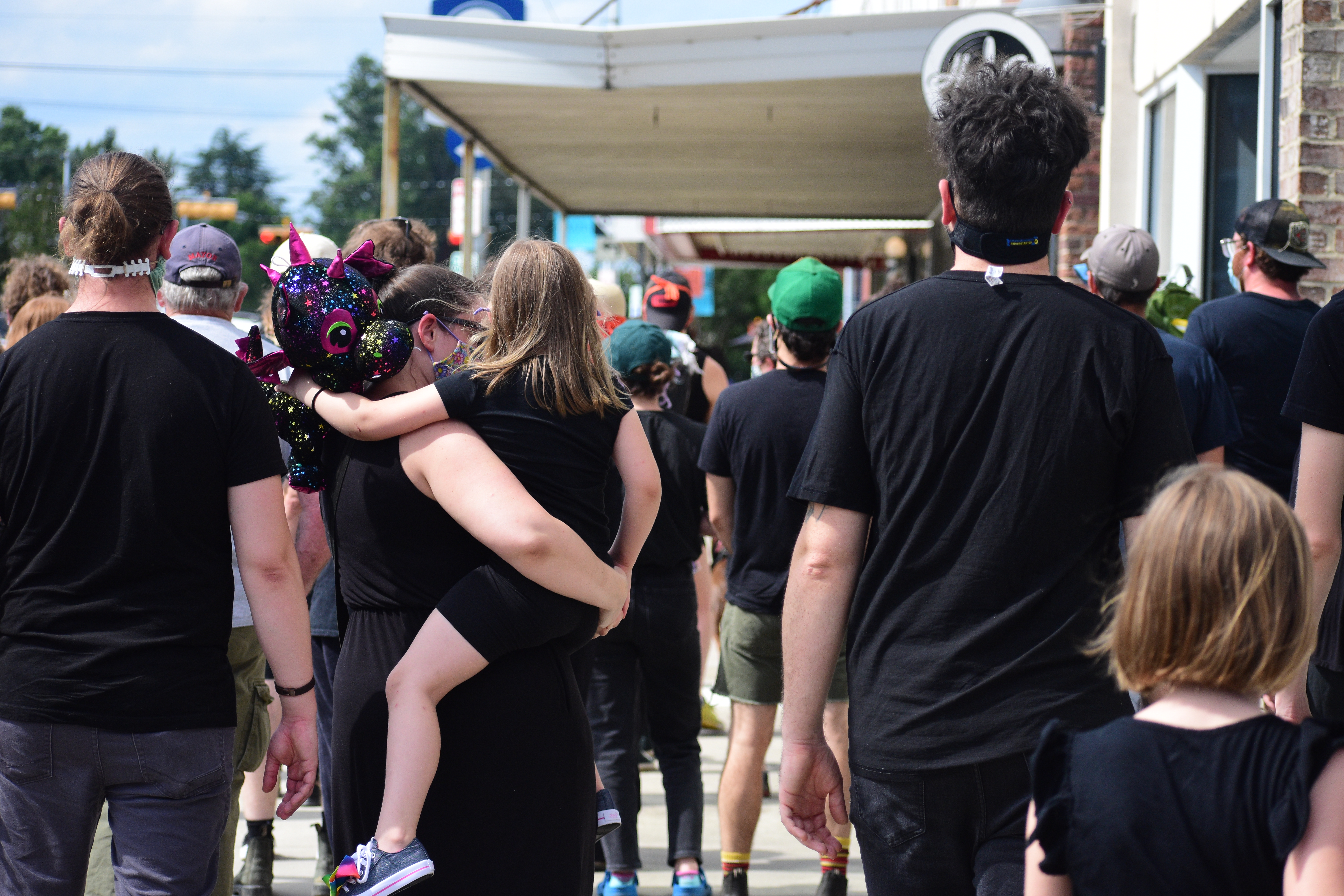 Gather to Demand Justice (2020 June)